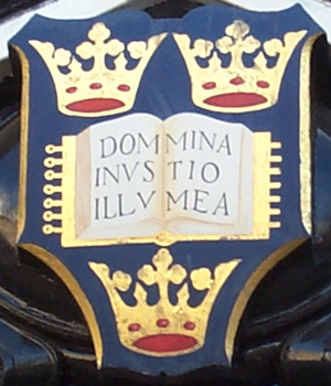 Coat of arms of the University of Oxford Location : seen outside Rewley House of Kellogg College, Oxford